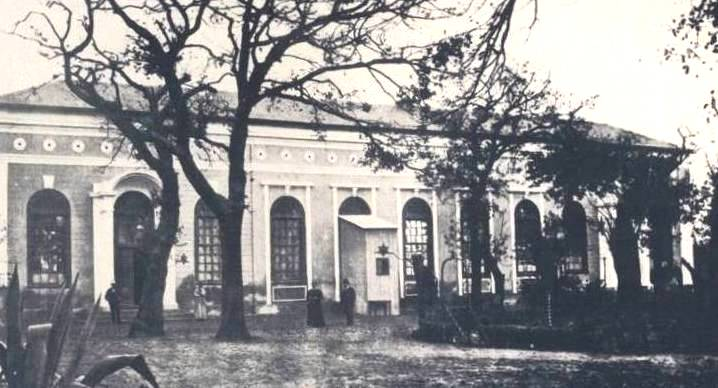 The Goede Hoop Lodge - Freemason and parliamentary building of Cape Town. 1875.